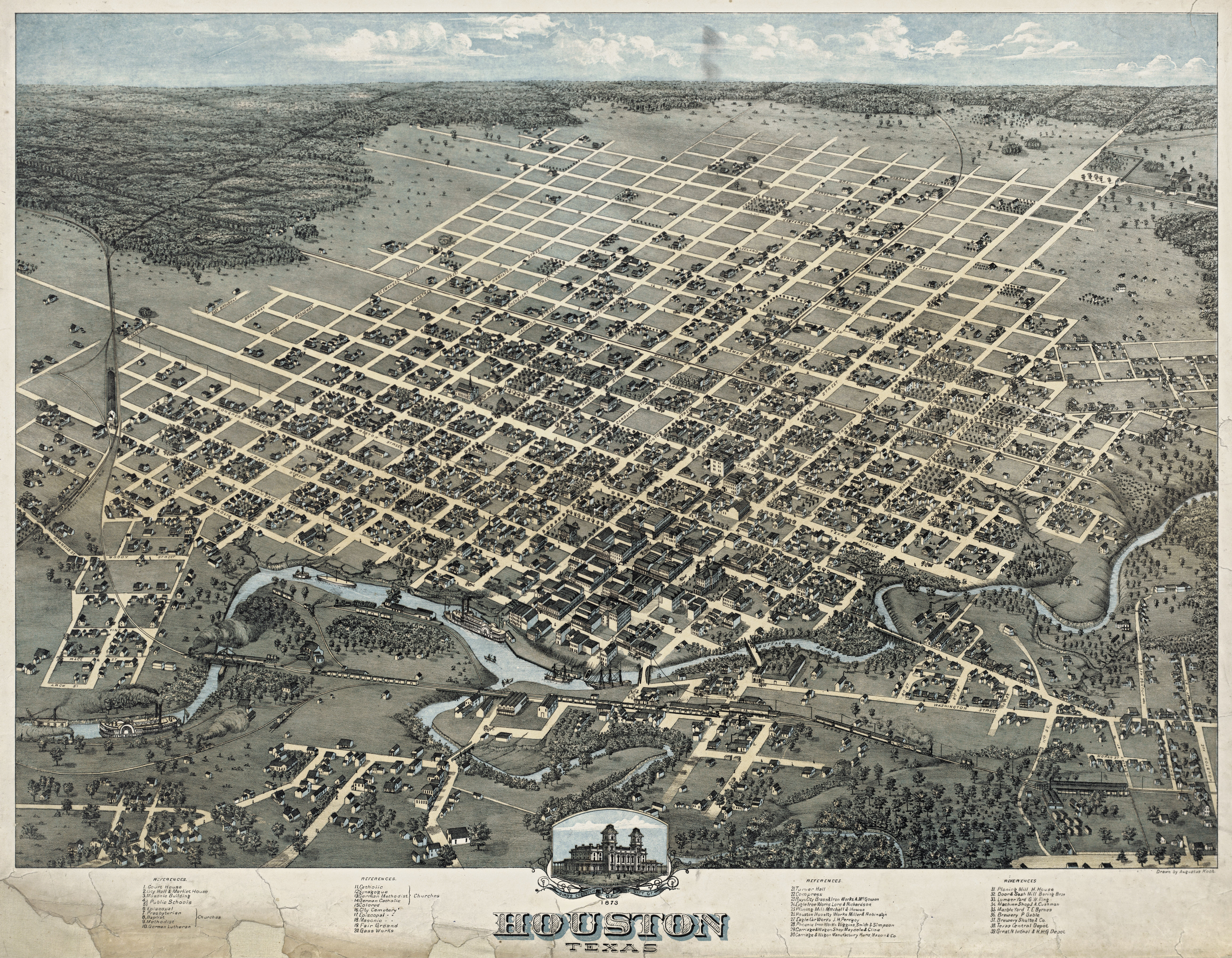 Houston, Texas in 1873. Bird's Eye View Of the City of Houston, Texas 1873, 1873. Lithograph (hand-colored), 23.2 x 30.1 in. Published by J. J. Stoner, Madison, Wis. Center for American History, The University of Texas at Austin.